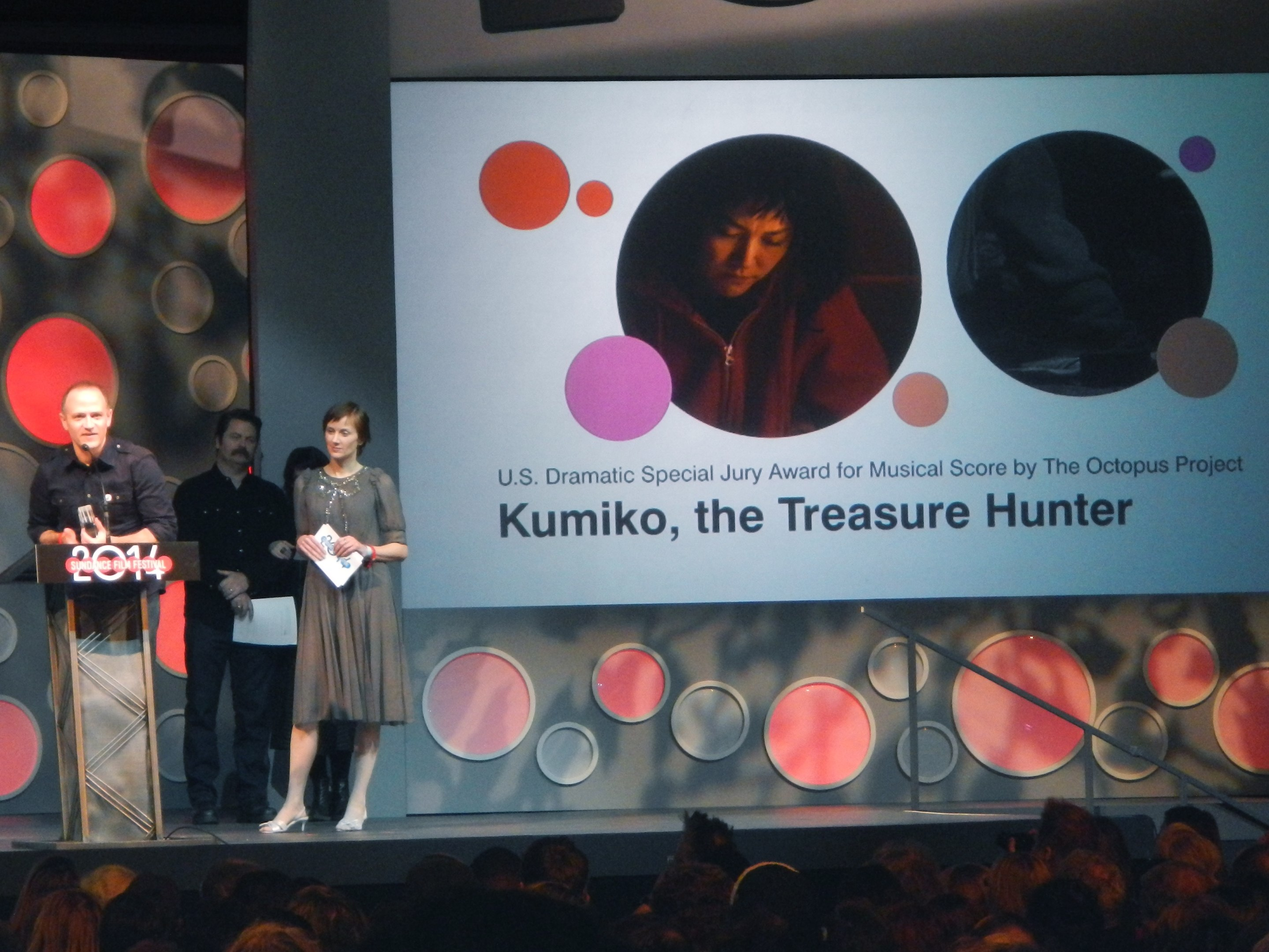 Sundance 2014 Awards Ceremony